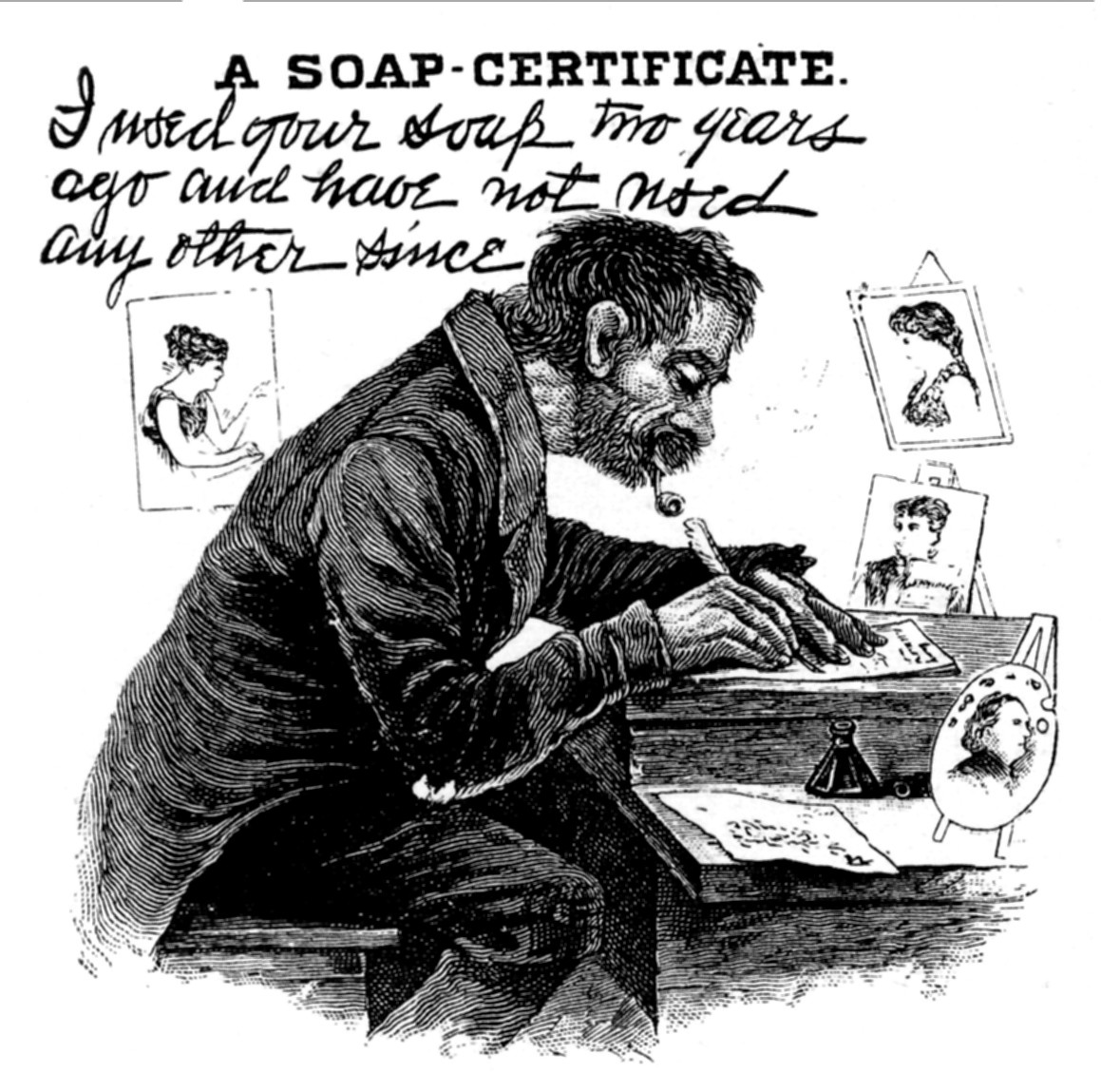 "A Soap Certificate" (satire of an advertising testimonial), from Harry Furniss, Confessions of a Caricaturist (1902).